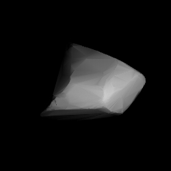 3D convex shape model of 1597 Laugier, computed using light curve inversion techniques. J. Hanuš, J. Ďurech, M. Brož, B. D. Warner (June 2011). "A study of asteroid pole-latitude distribution based on an extended set of shape models derived by the lightcurve inversion method". Astronomy and Astrophysics 530: A134. ISSN 0004-6361. arXiv